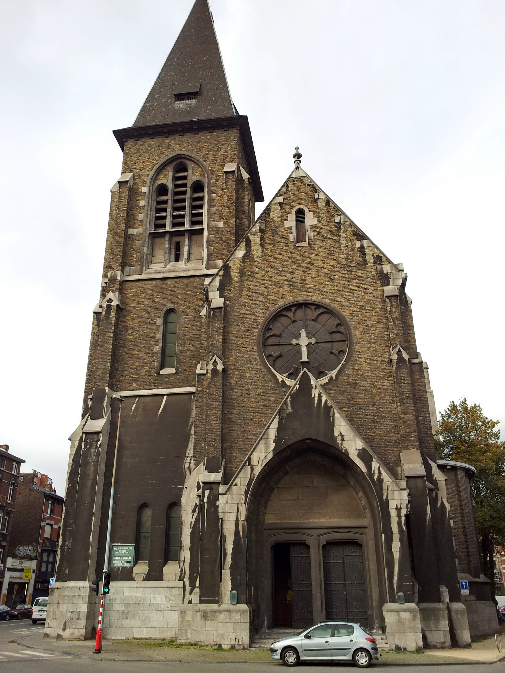 Liège, Belgium. View from the west of the Gothic revival parish church of Saint Pholian in the Outremeuse quarter.